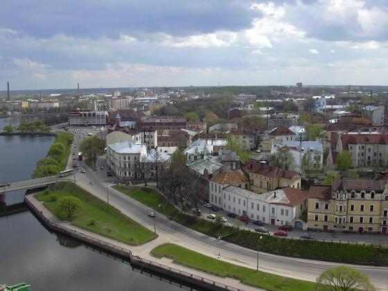 Vyborg from the tower of the castle.